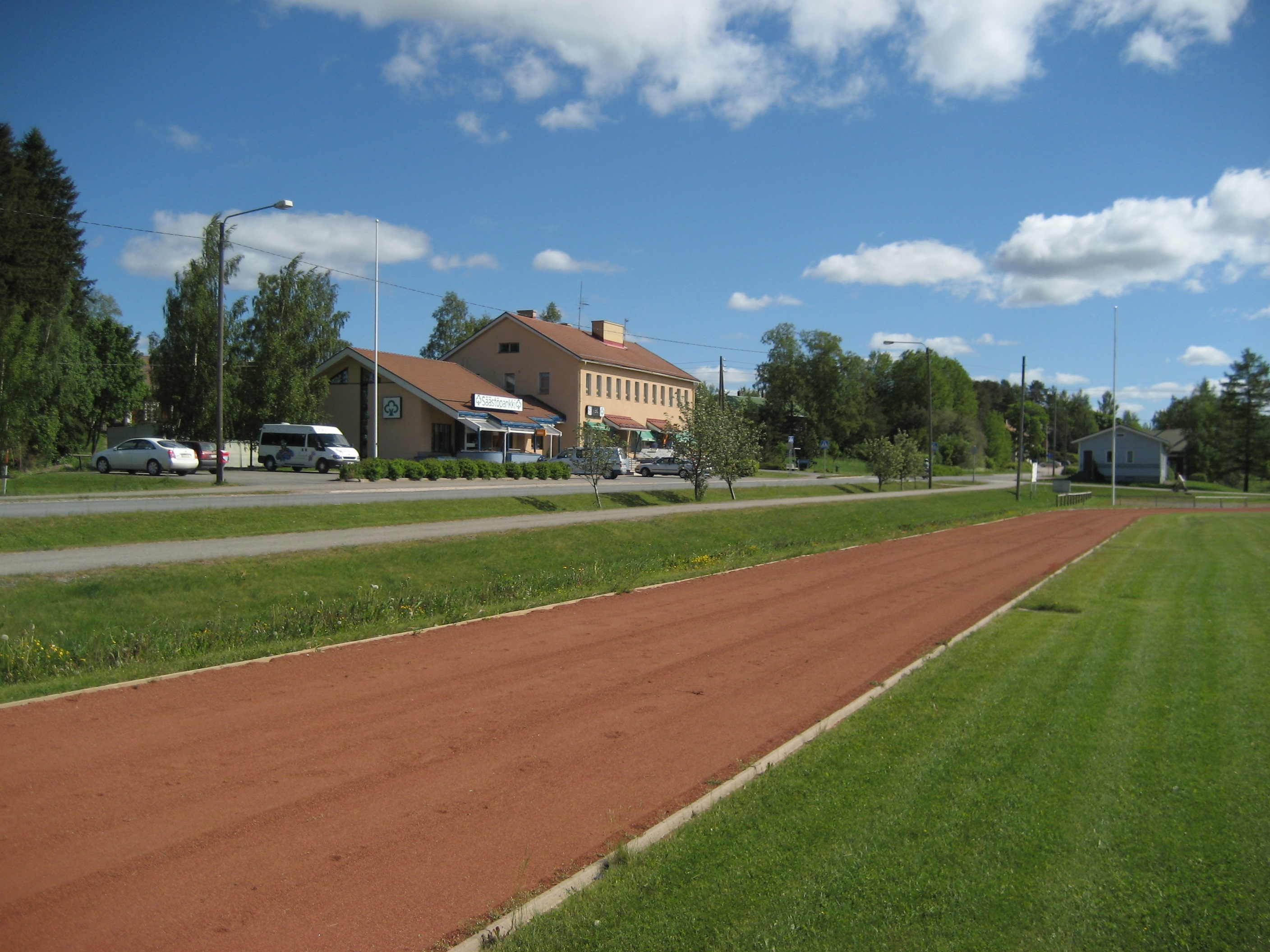 Suodenniemi Main Street (in Finland)